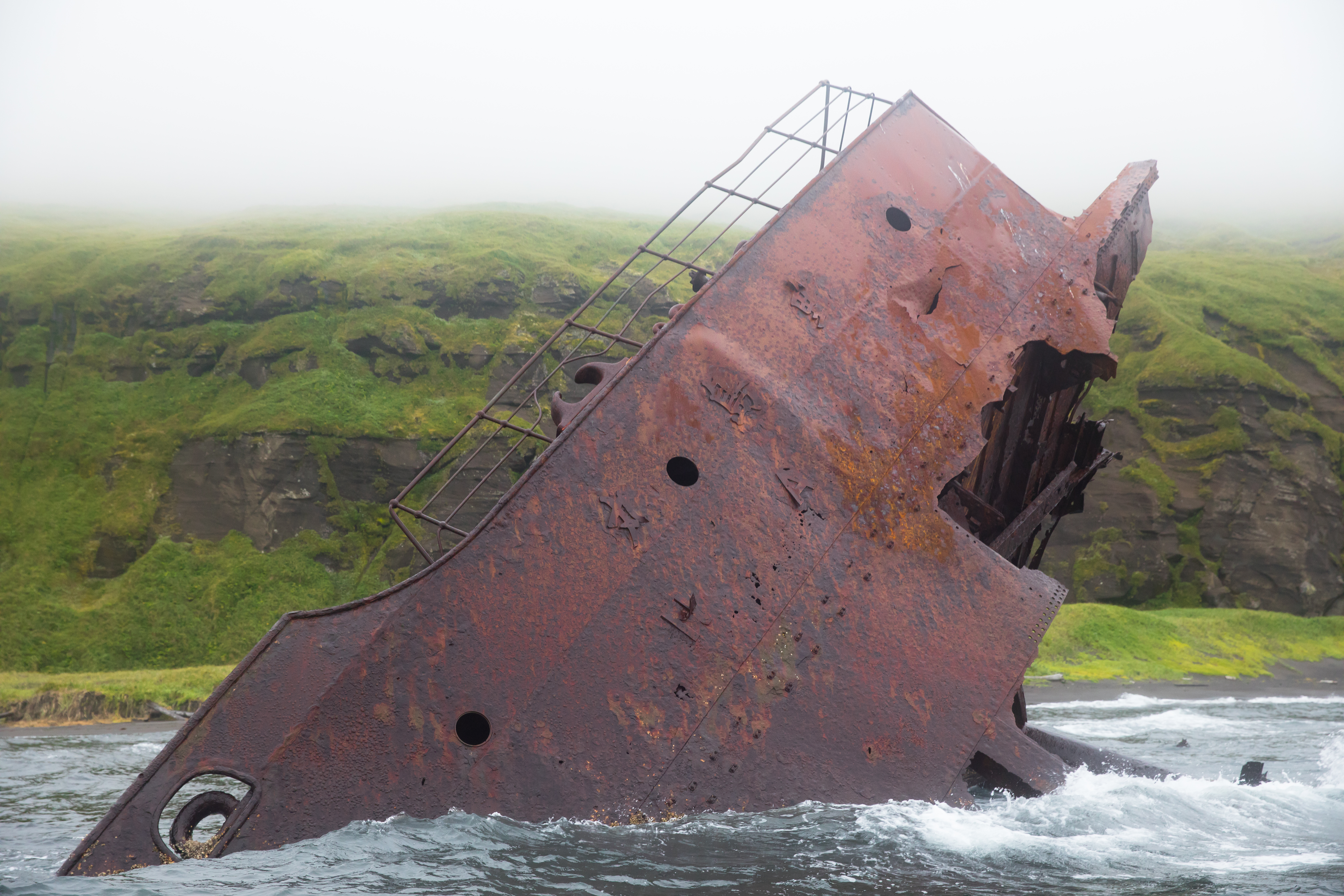 Shortly after the Japanese invaded Kiska Island, American aircraft attacked and sank the Japanese oiler, Nissan Maru, in Kiska Harbor.